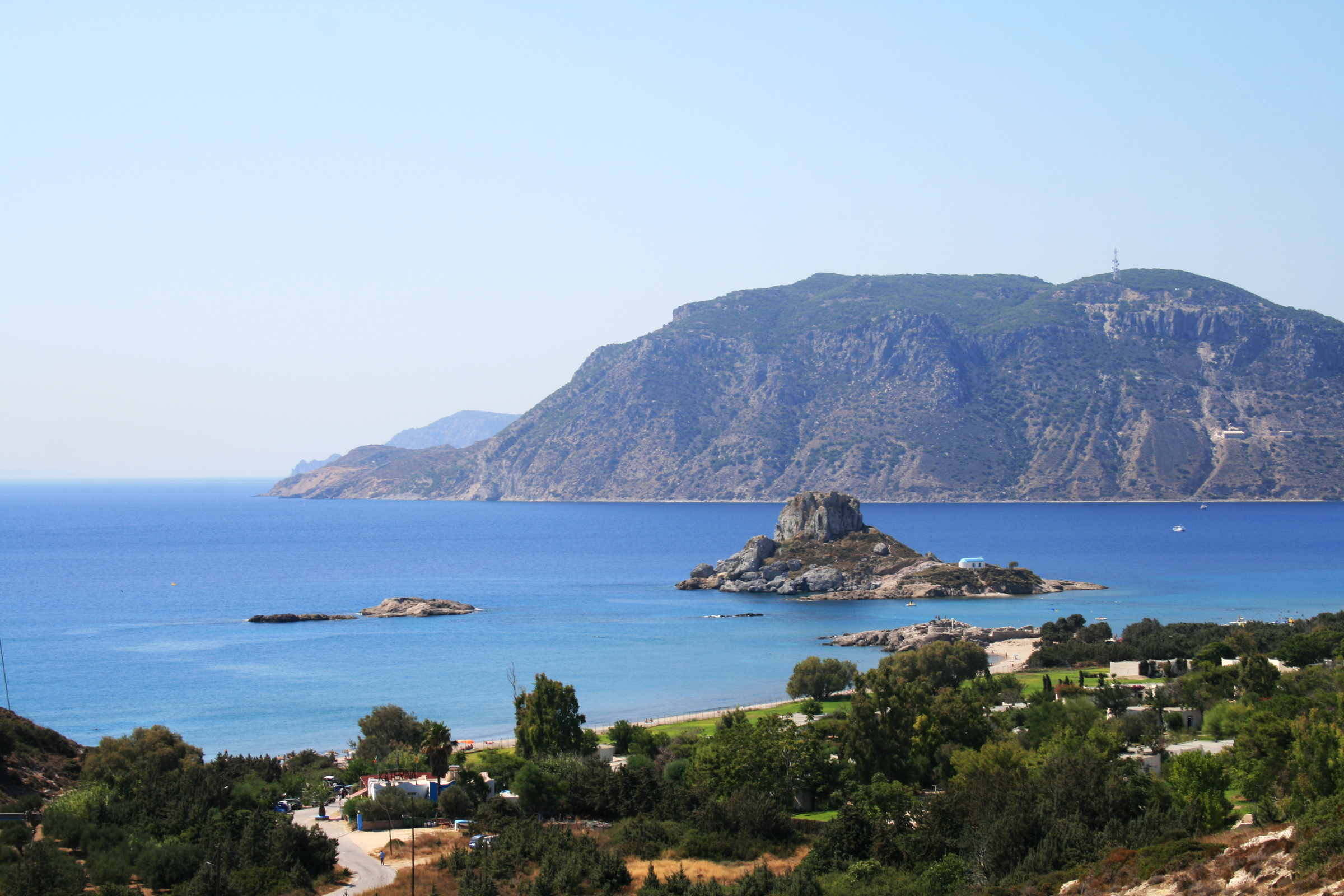 View on small island Kastri and beach near town Kefalos on Kos island (Greece)